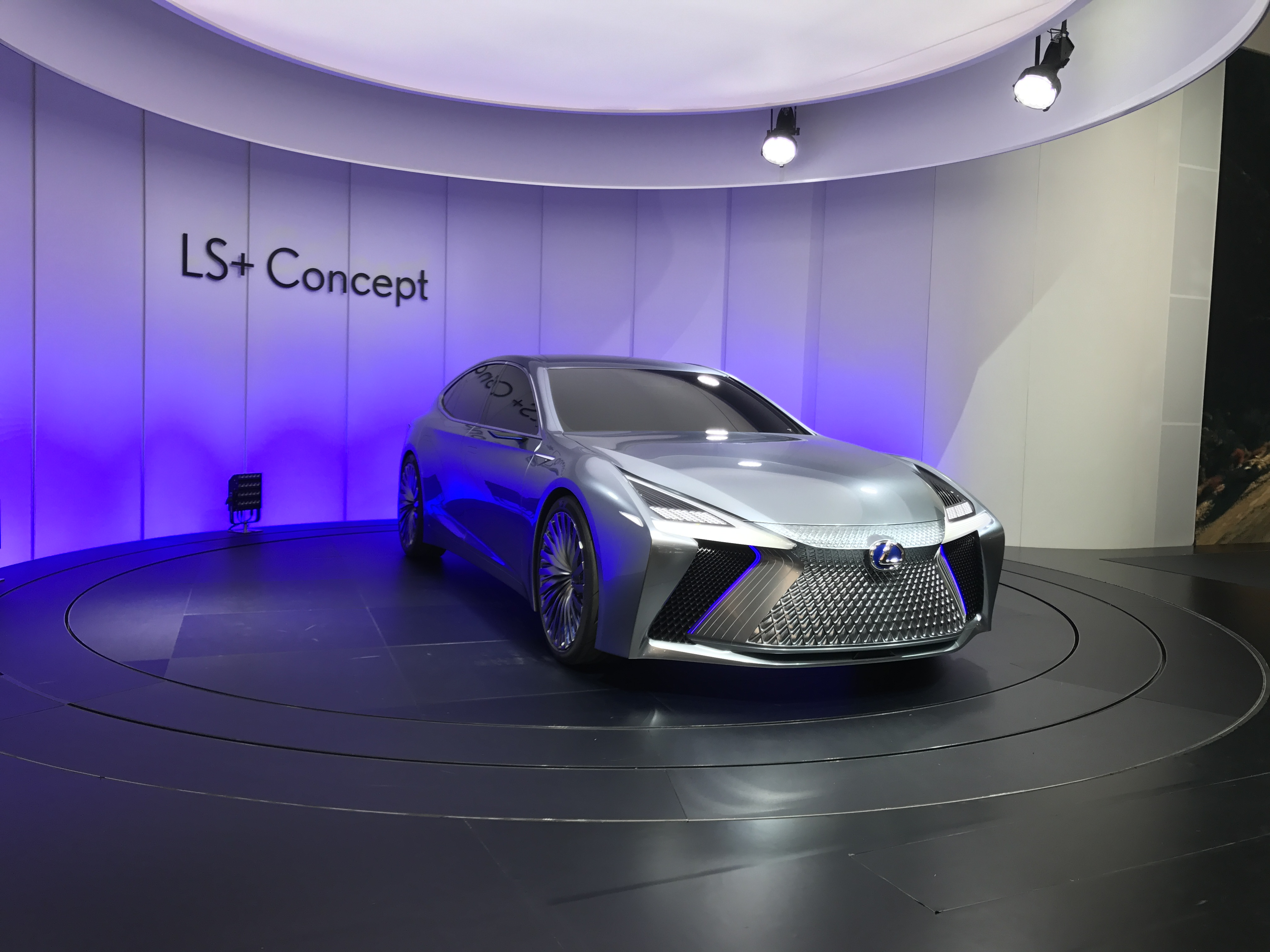 Front view of Lexus LS + concept at the 2017 Tokyo Motor Show (right angle)